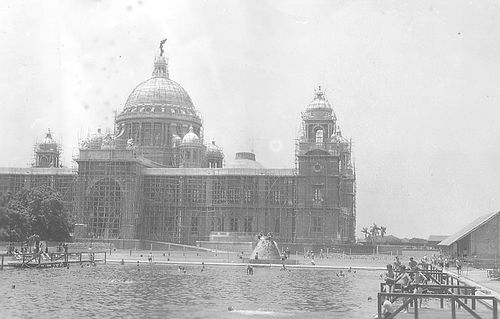 Victoria Memorial calcutta 40s